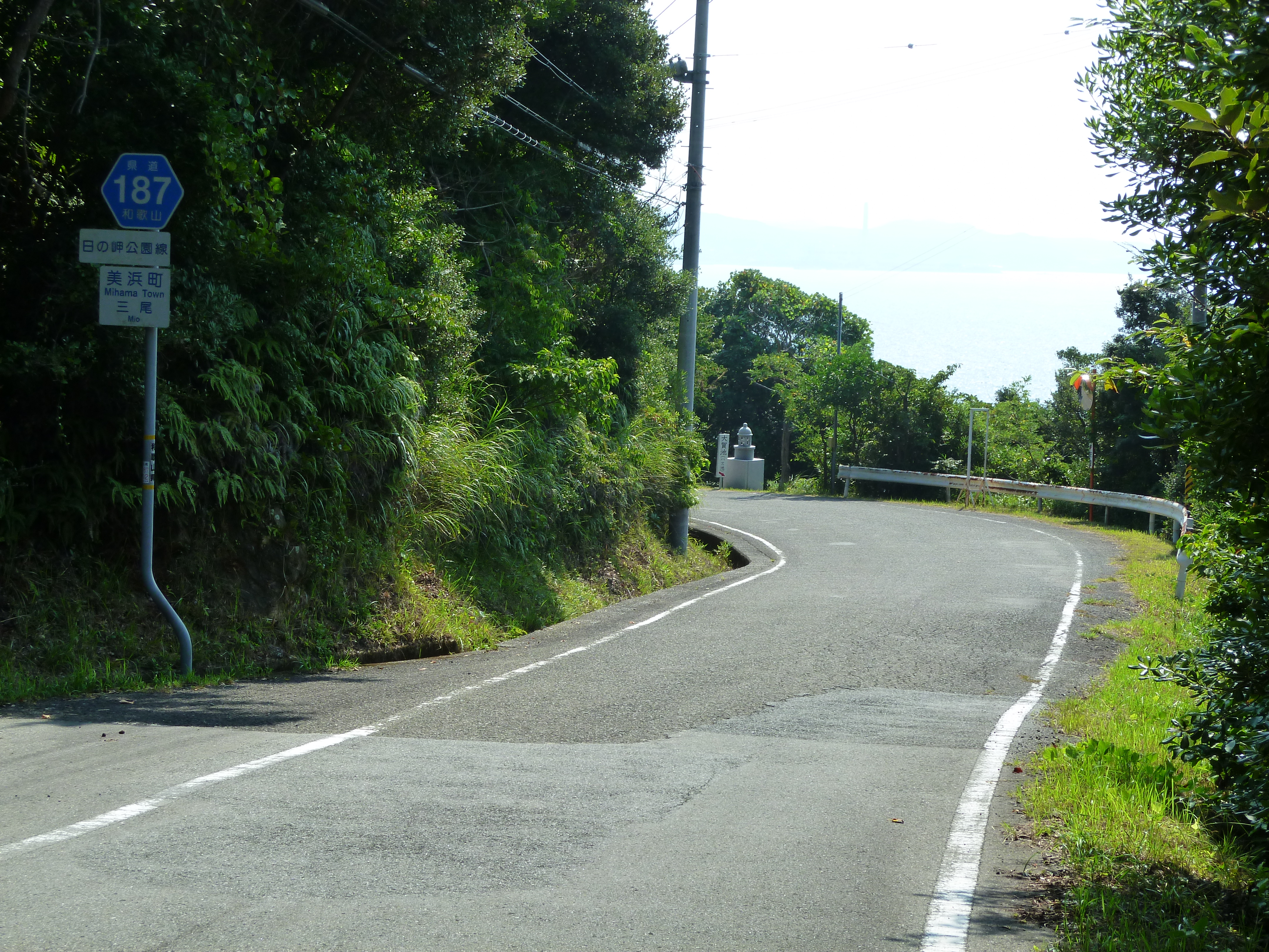 The Wakayama Prefectural Road Route 187 in Mio, Mihama Town